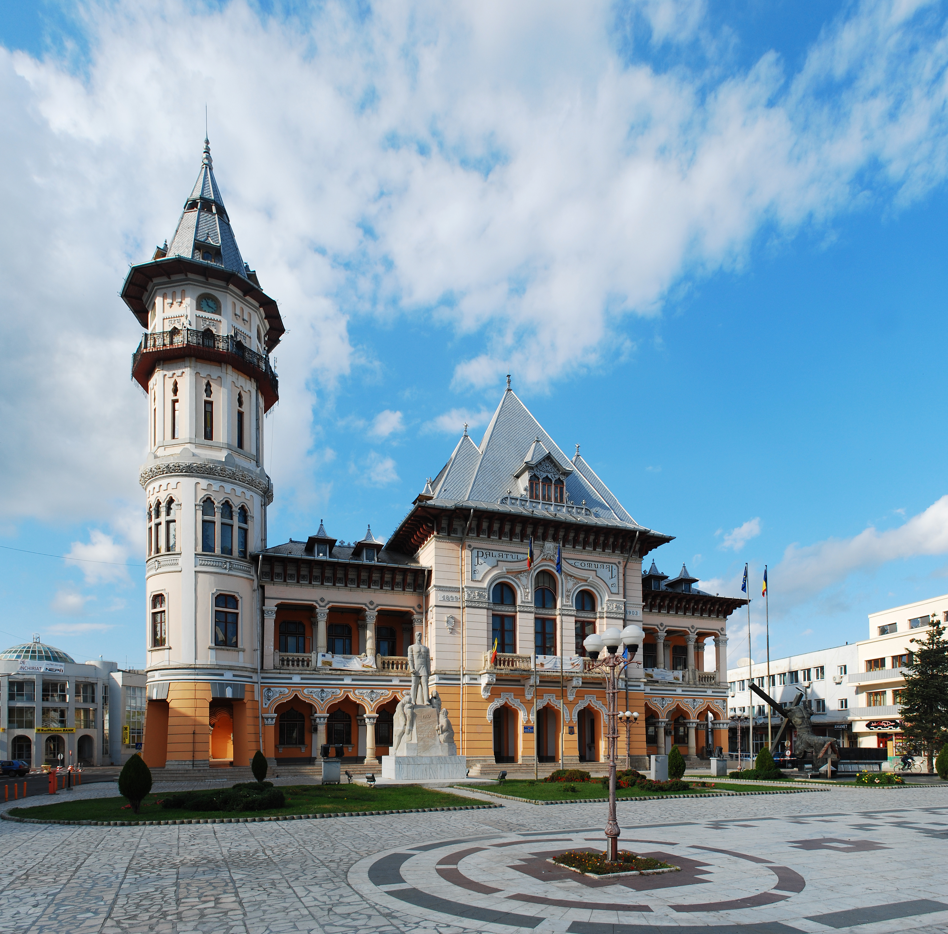 Communal Palace (city hall) in Buzău, Romania